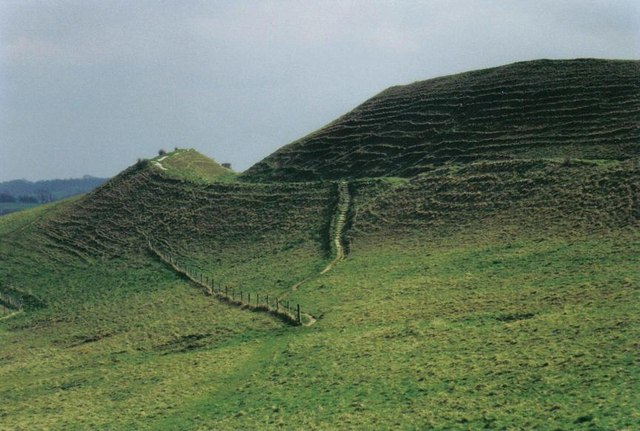 The slopes of Maiden Castle The earthworks of this massive hillfort.